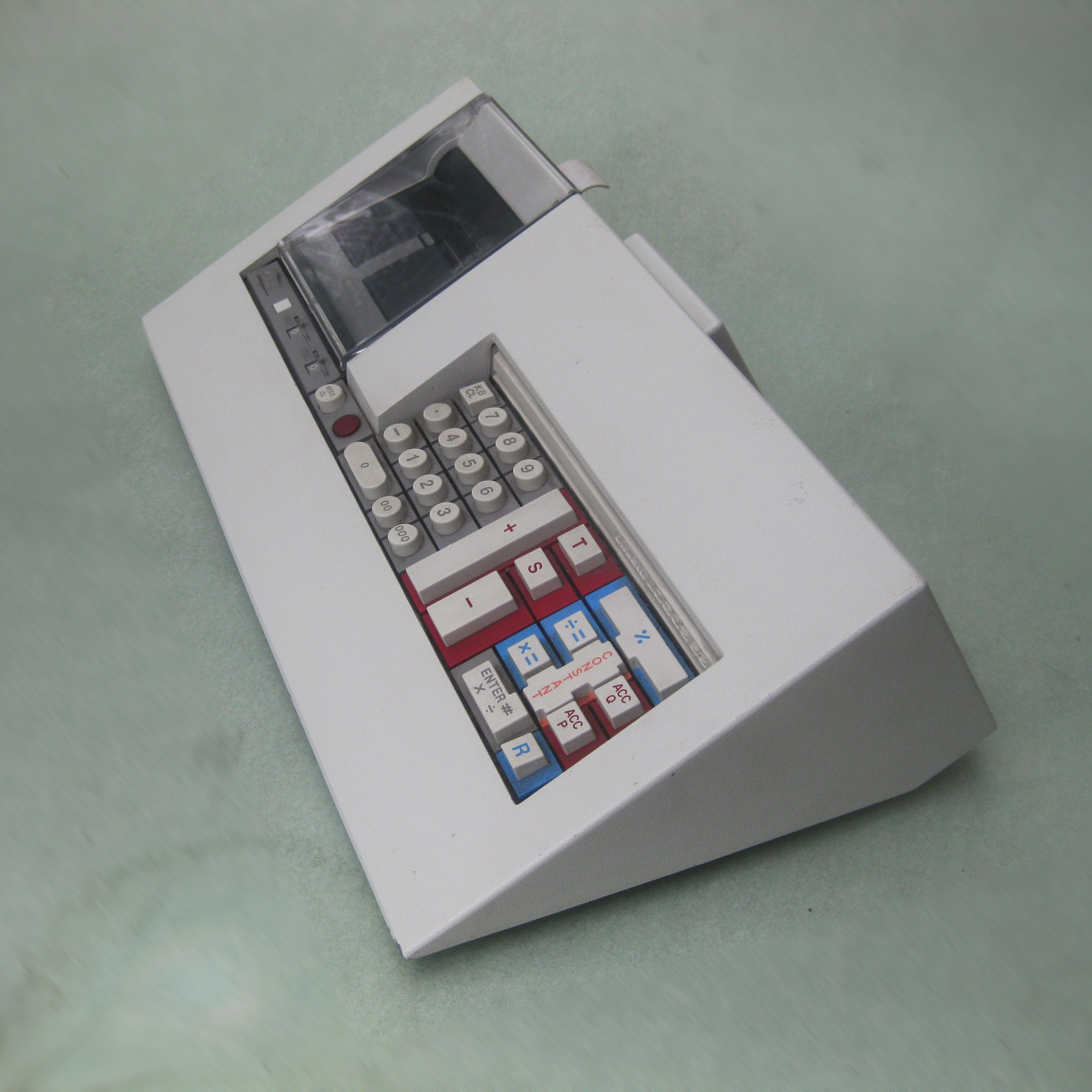 Calculator Olivetti Logos 58, designed 1973 by Mario Bellini